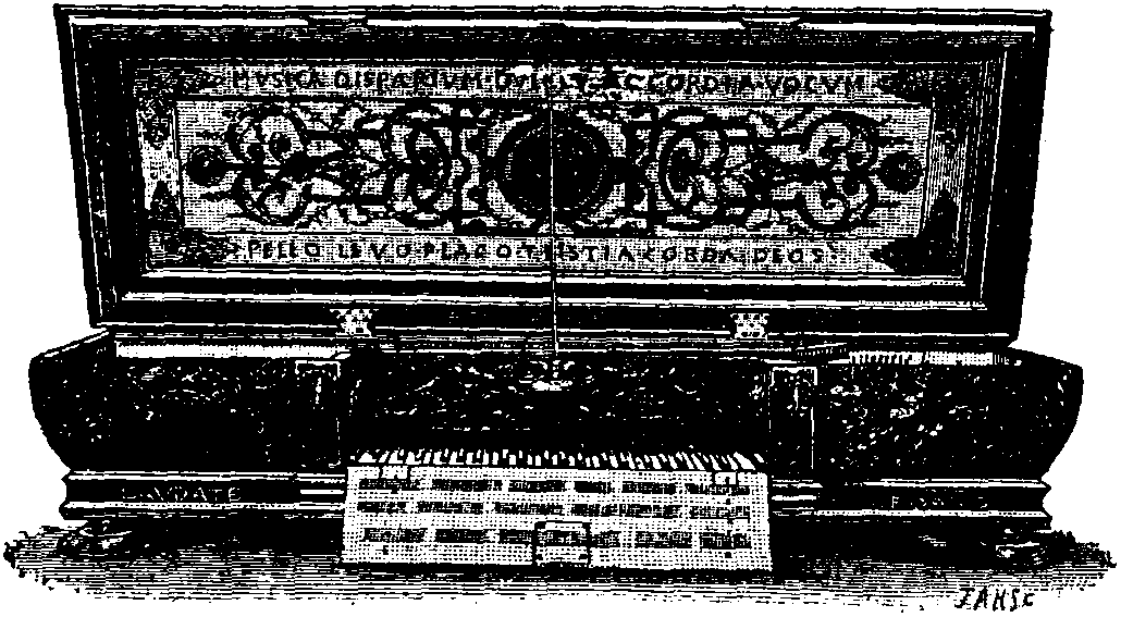 Spinetta tavola (rectangular spinet) made in 1568 from the Victoria and Albert Museum